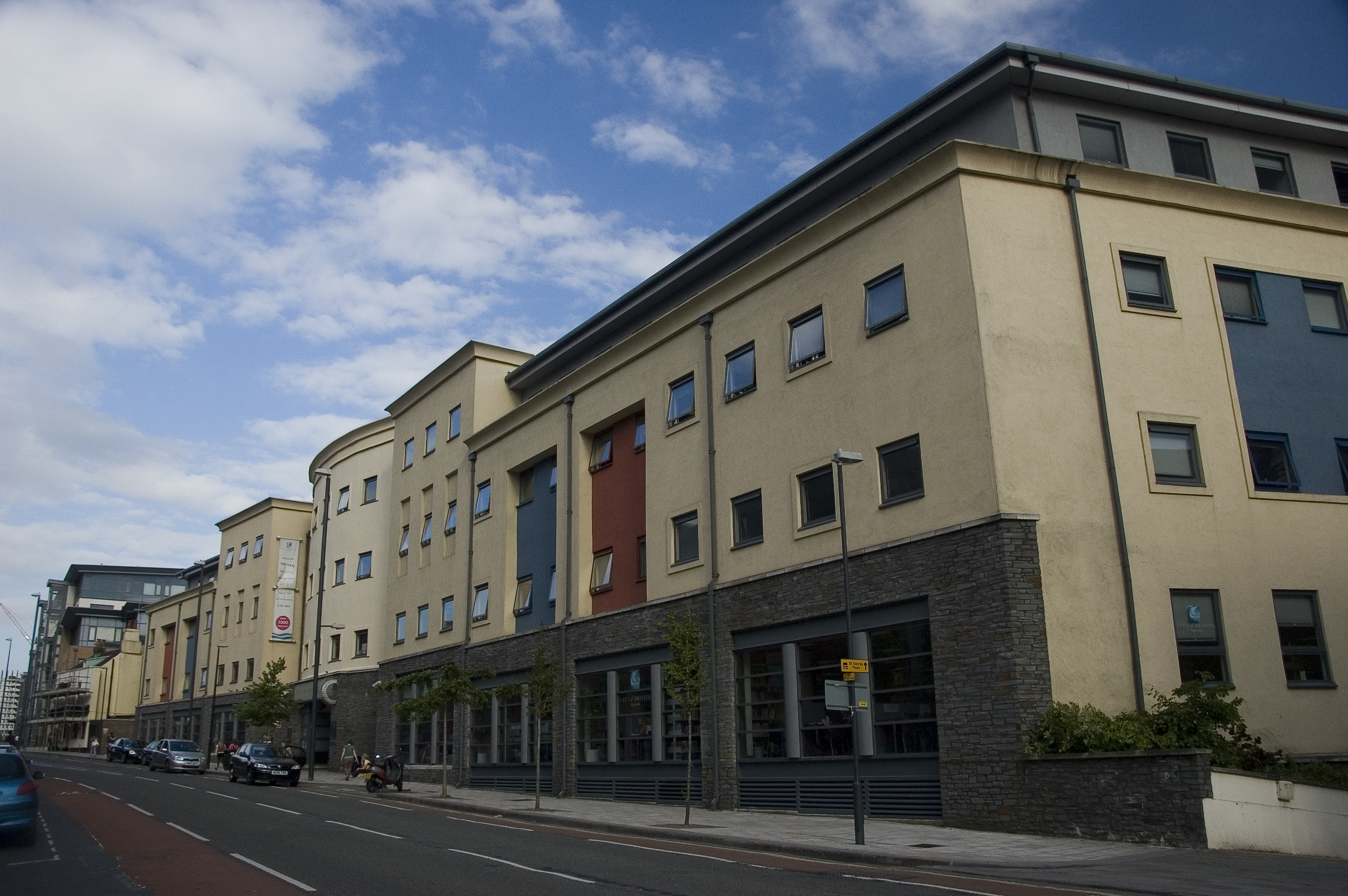 City of Bristol College, Deanery Road, Bristol.